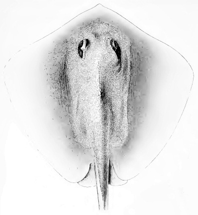 Illustration of Trygon gerrardi (=Himantura gerrardi)